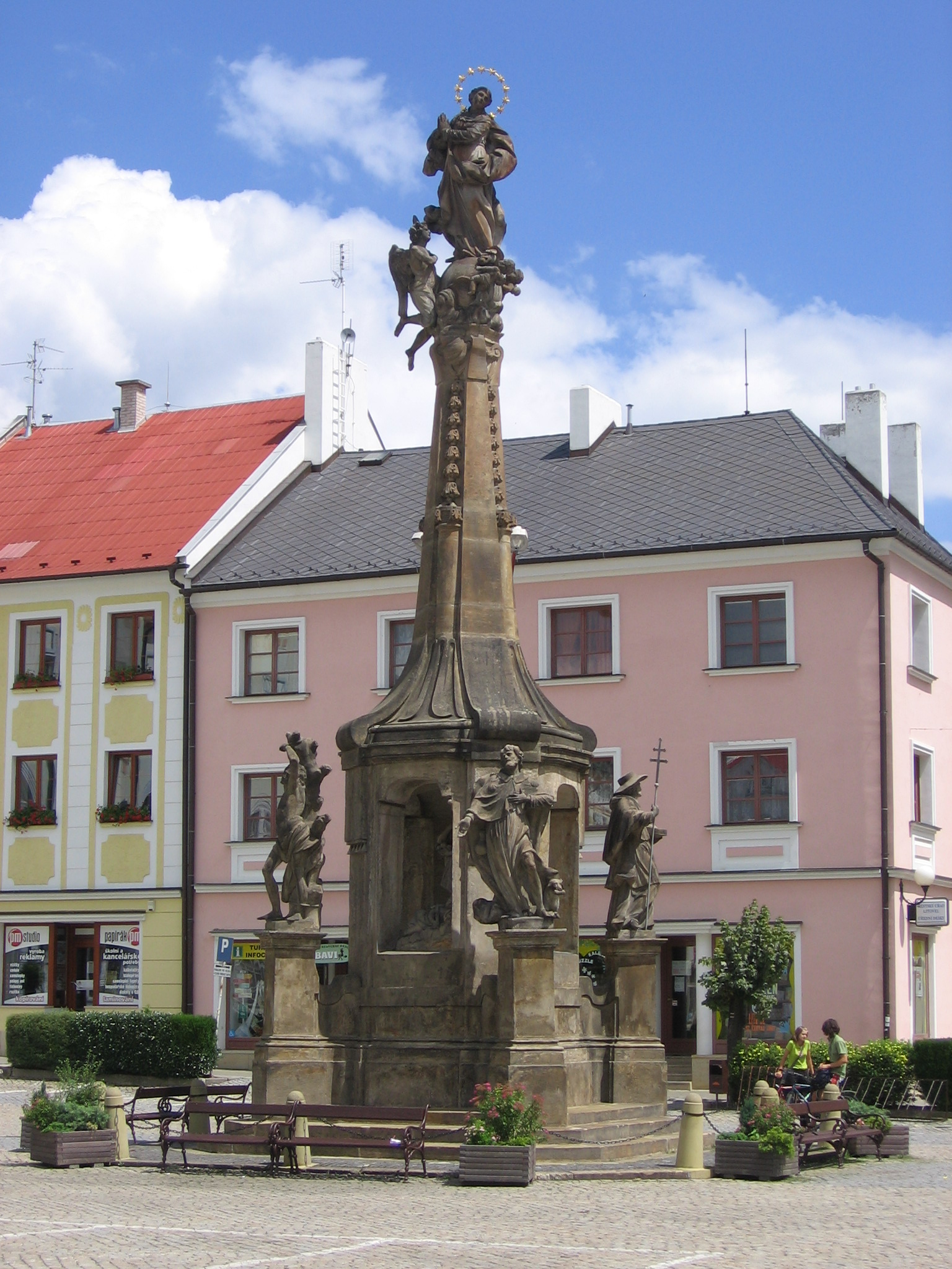 Maria Column in Litovel (Czech Republic)